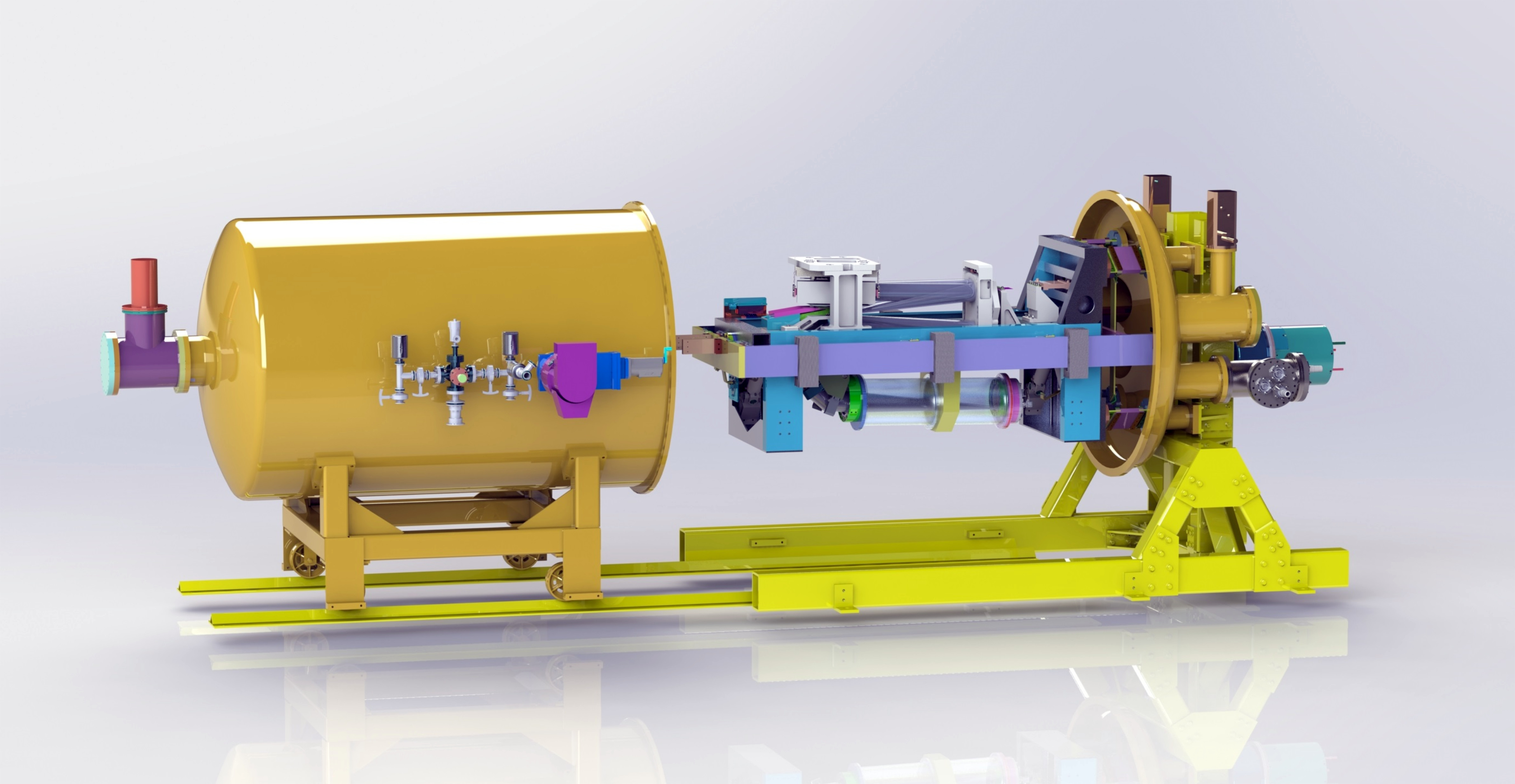 This conceptual drawing shows the NIRPS (Near Infra Red Planet Searcher) instrument on the ESO 3.6-metre telescope at the La Silla Observatory in Chile. Built by an international collaboration led by the Institute for Research on Exoplanets (iREx) team at the Université de Montréal, NIRPS is an infrared spectrograph designed to detect Earth-like rocky planets around the coolest stars.